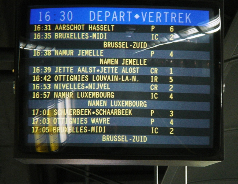 French/Dutch departure information screen at Bruxelles-Luxembourg station.